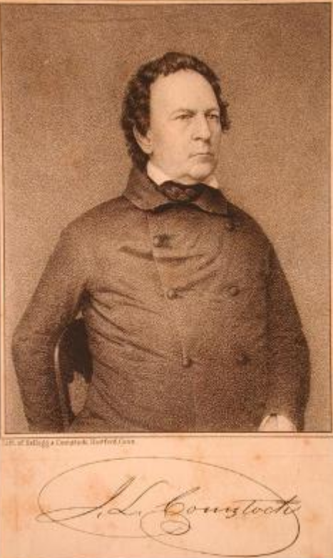 Portrait of Dr. John Lee Comstock (American, 1787 - 1858); Printed by Kellogg & Comstock (American, 1850 - 1851)